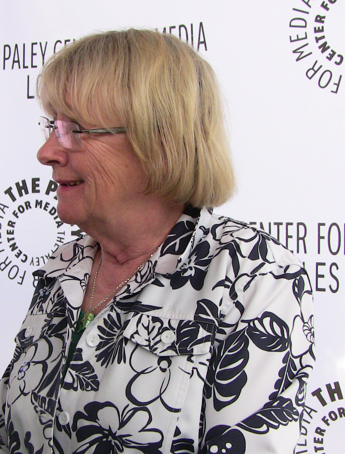 Actress Kathryn Joosten at Desperate Housewives Paley Fest, William S. Paley Center, Beverly Hills, California